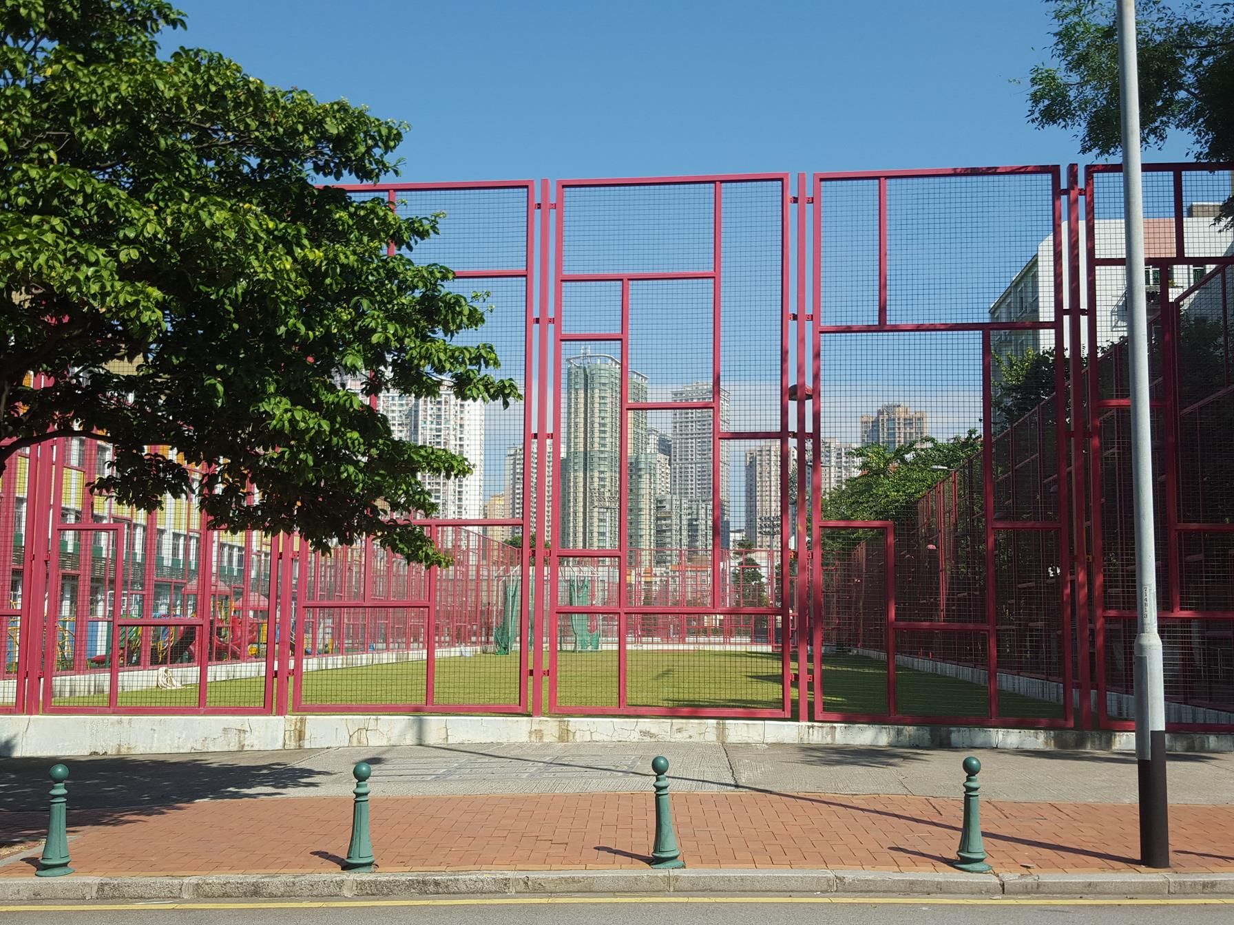 Macau Olympic Sports Centre - Multi-Purpose Zone